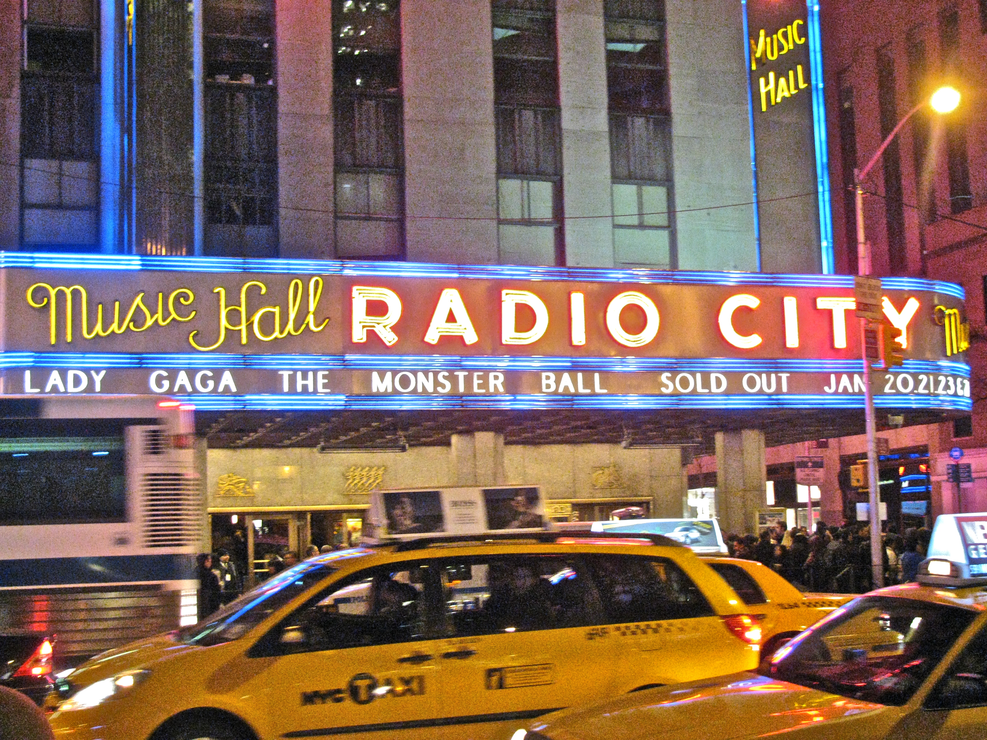 The Mons†er Ball Starring Lady Gaga.